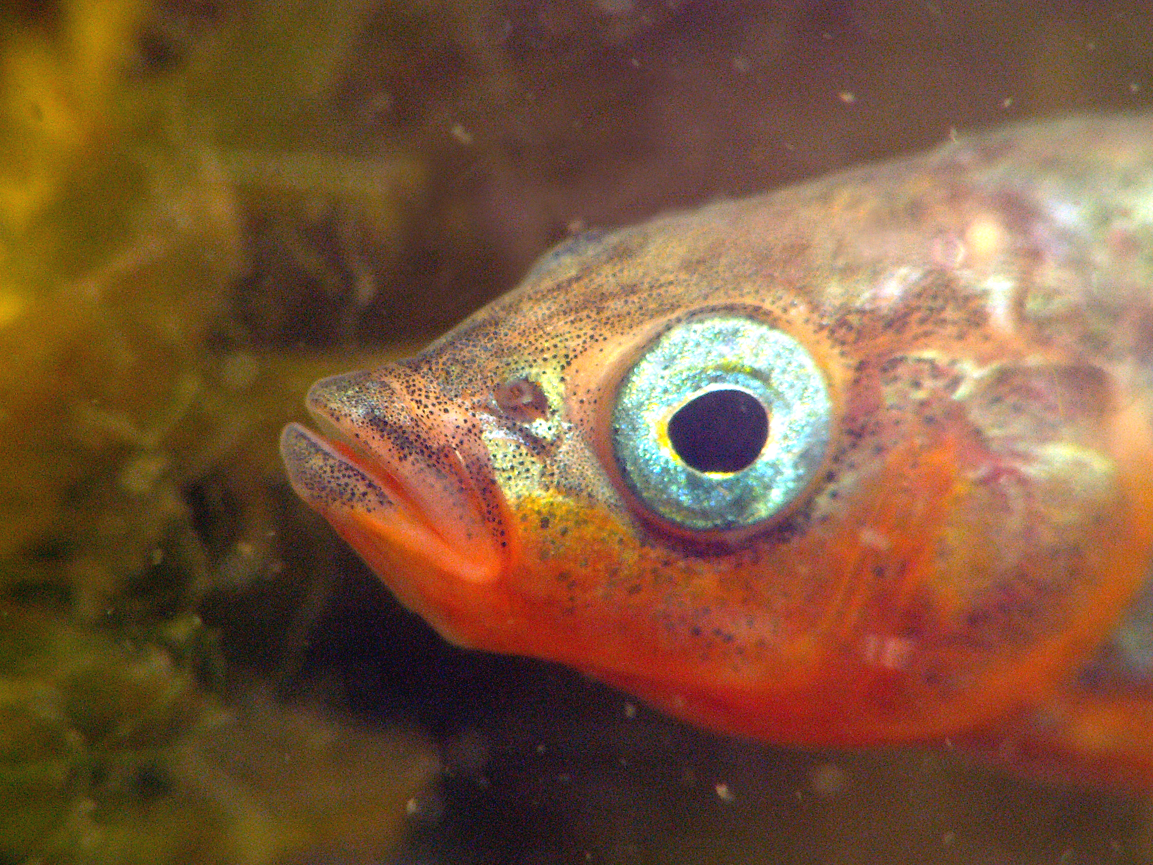 Head of male three-spined sticleback (Gasterosteus aculeatus)